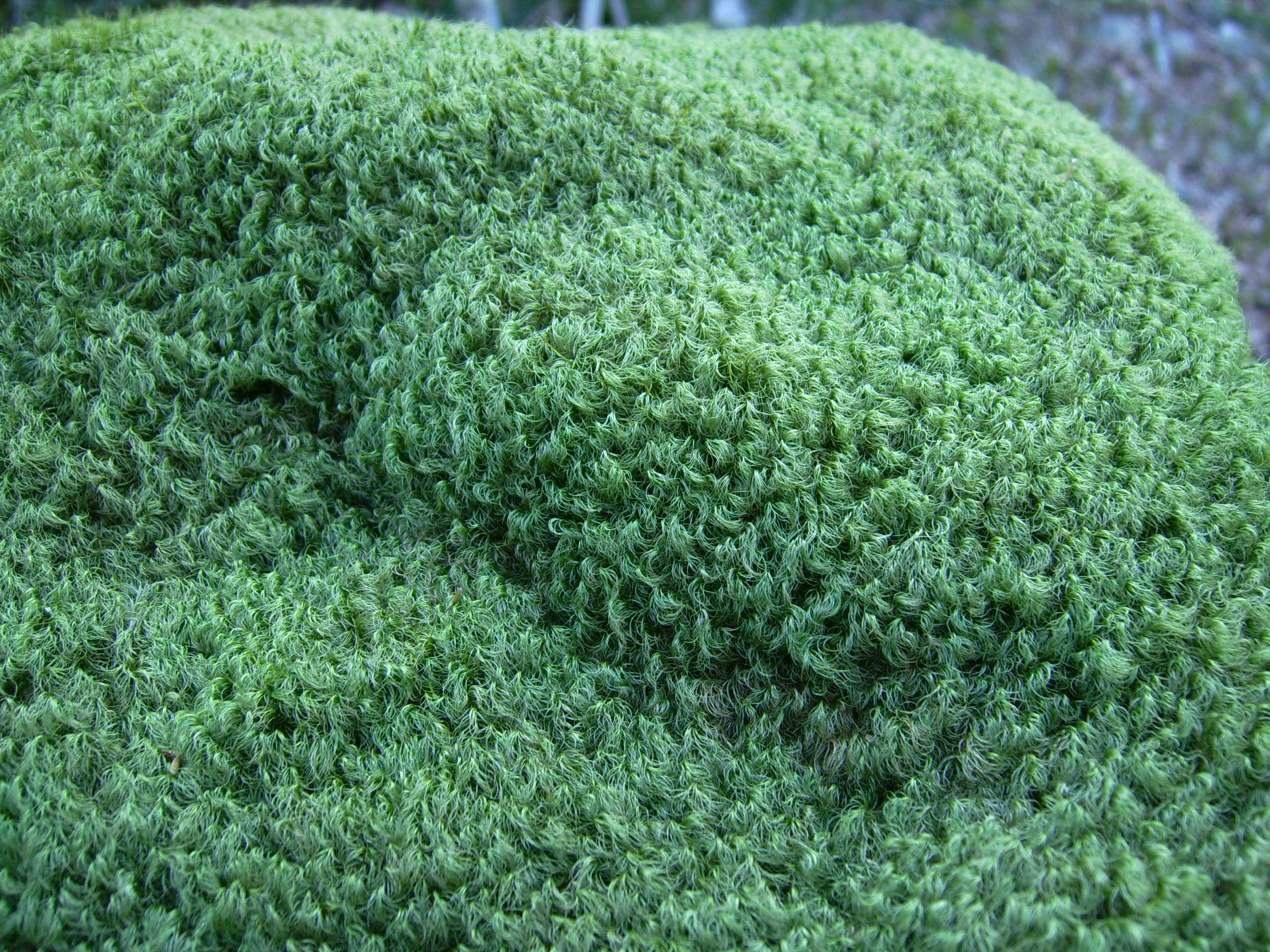 Broom moss (Dicranum scoparium) along Orphan Lake trail, Lake Superior Provincial Park, Ontario 47°29′11.4″N 84°49′21.6″W / 47.4865°N 84.822667°W